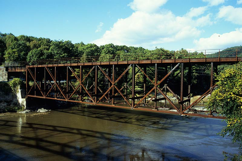 Wells River Bridge is a defunct rail bridge over the Connecticut River between Wells River, Vermont, USA and Woodsville, New Hampshire, USA. It formerly carried the Boston and Maine Railroad.